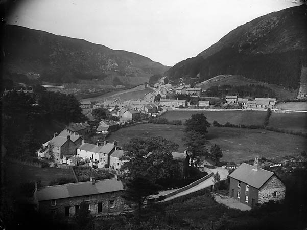 1 negative : glass, dry plate, b&w ; 16.5 x 21.5 cm.